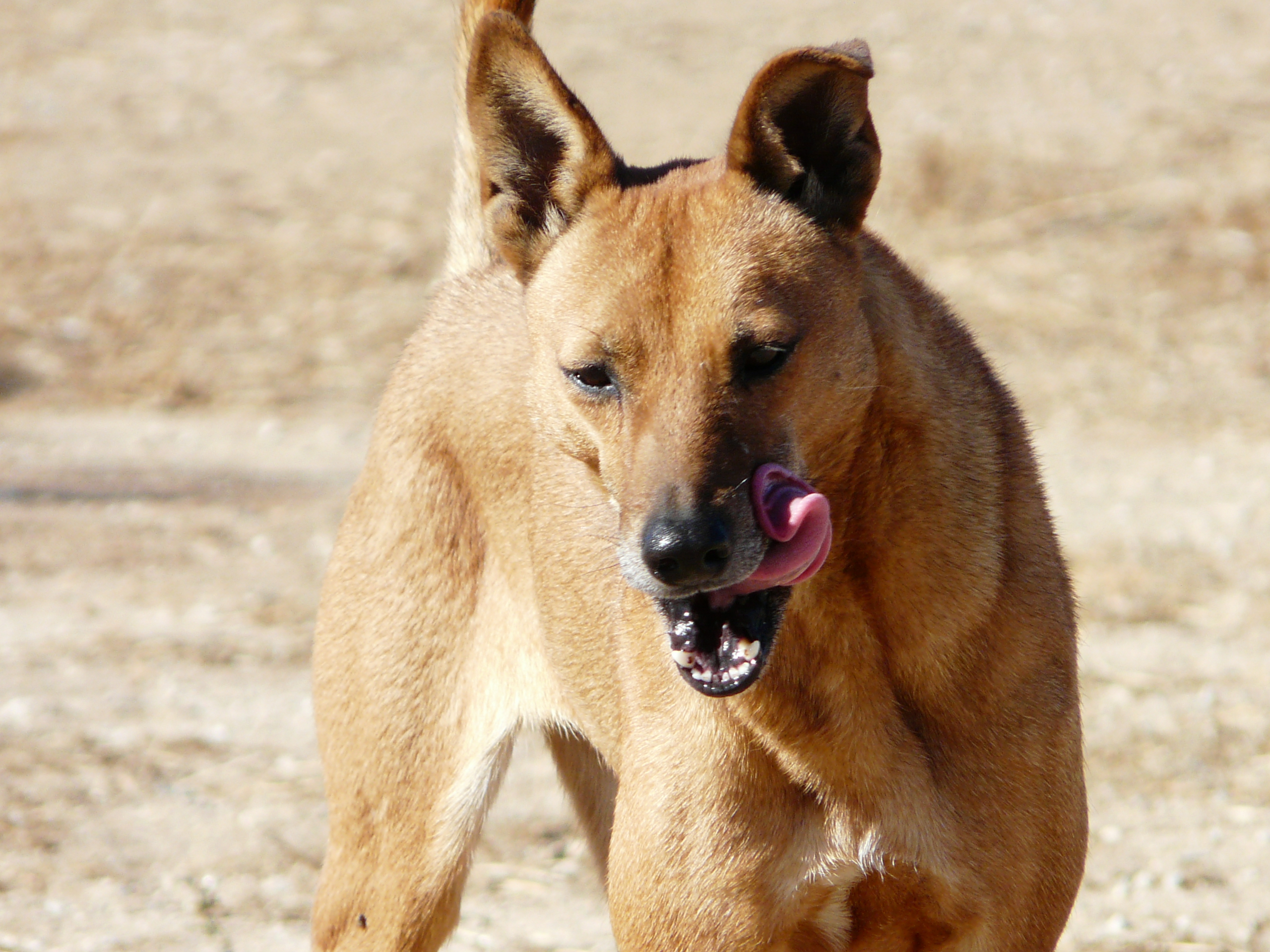 An American Dingo aka Carolina Dog, Riverside Rescue in Riverside, CA, USA